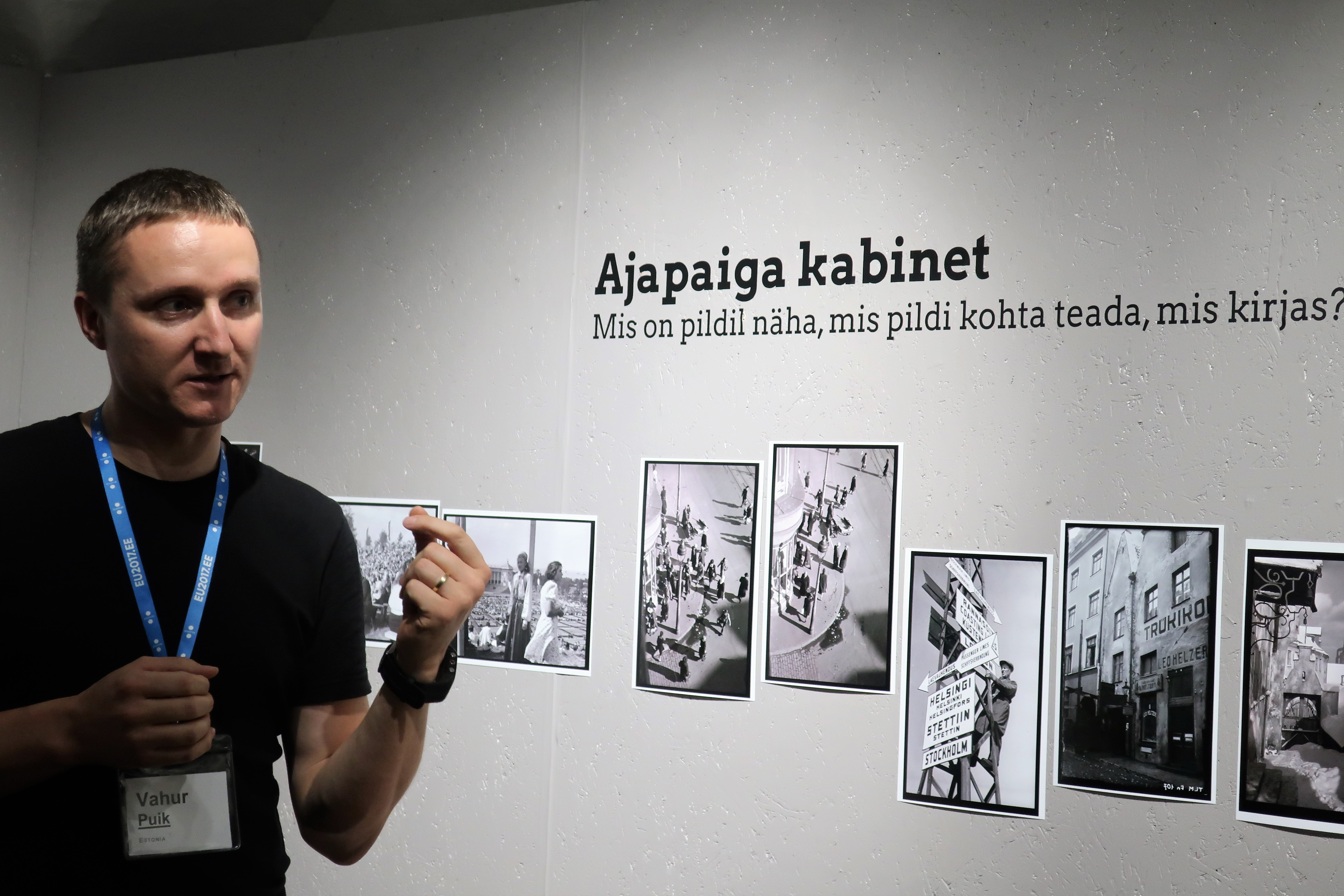 Vahur Puik, photographs text on the wall in Estonian